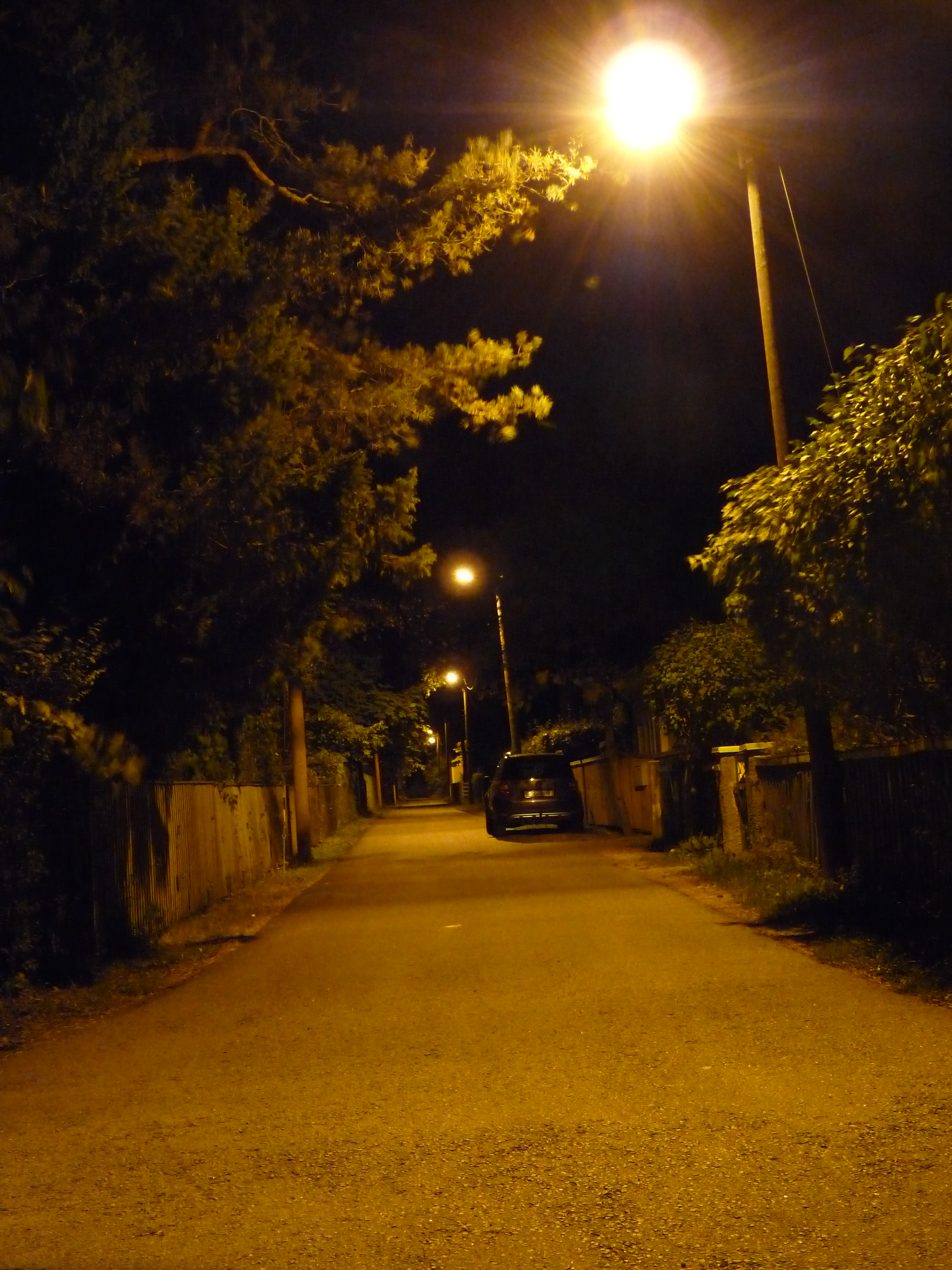 Riisika street in Tallinn, Estonia